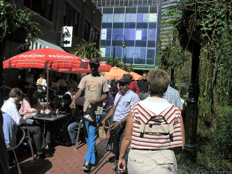 Created by drumguy8800.